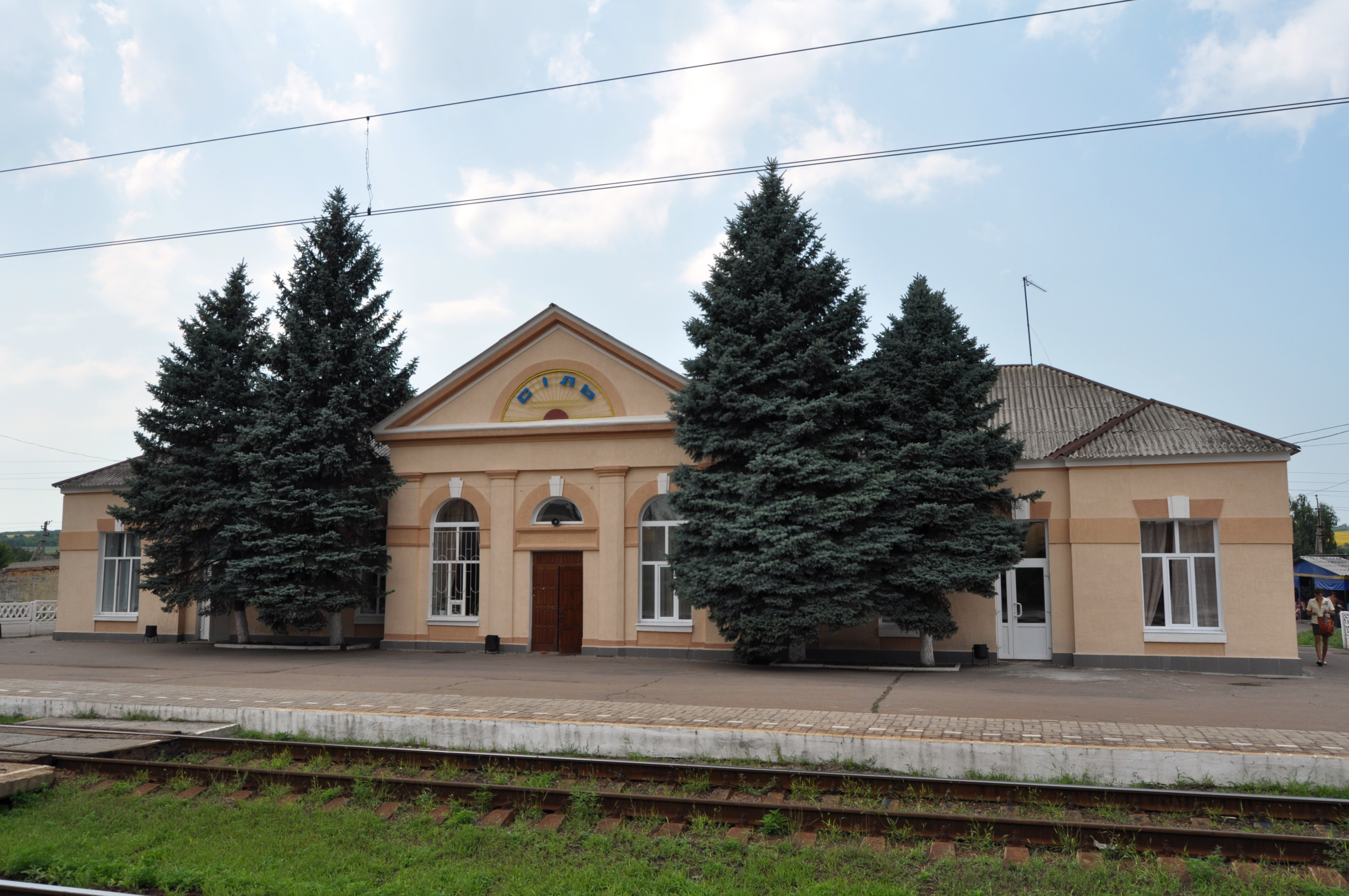 Ukraine. Railway station Sil' of Donetsk railways